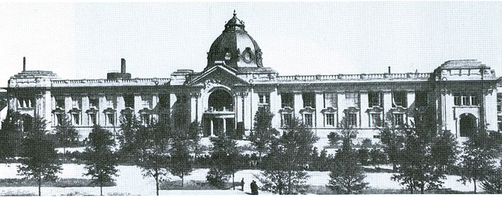 Kunstpalast in Düsseldorf, erbaut für die Industrie- und Gewerbeausstellung Düsseldorf im Jahr 1902, Grundriss Entwurf Albrecht Bender, Fassade Entwurf Eugen Rückgauer, Fassaden.jpg